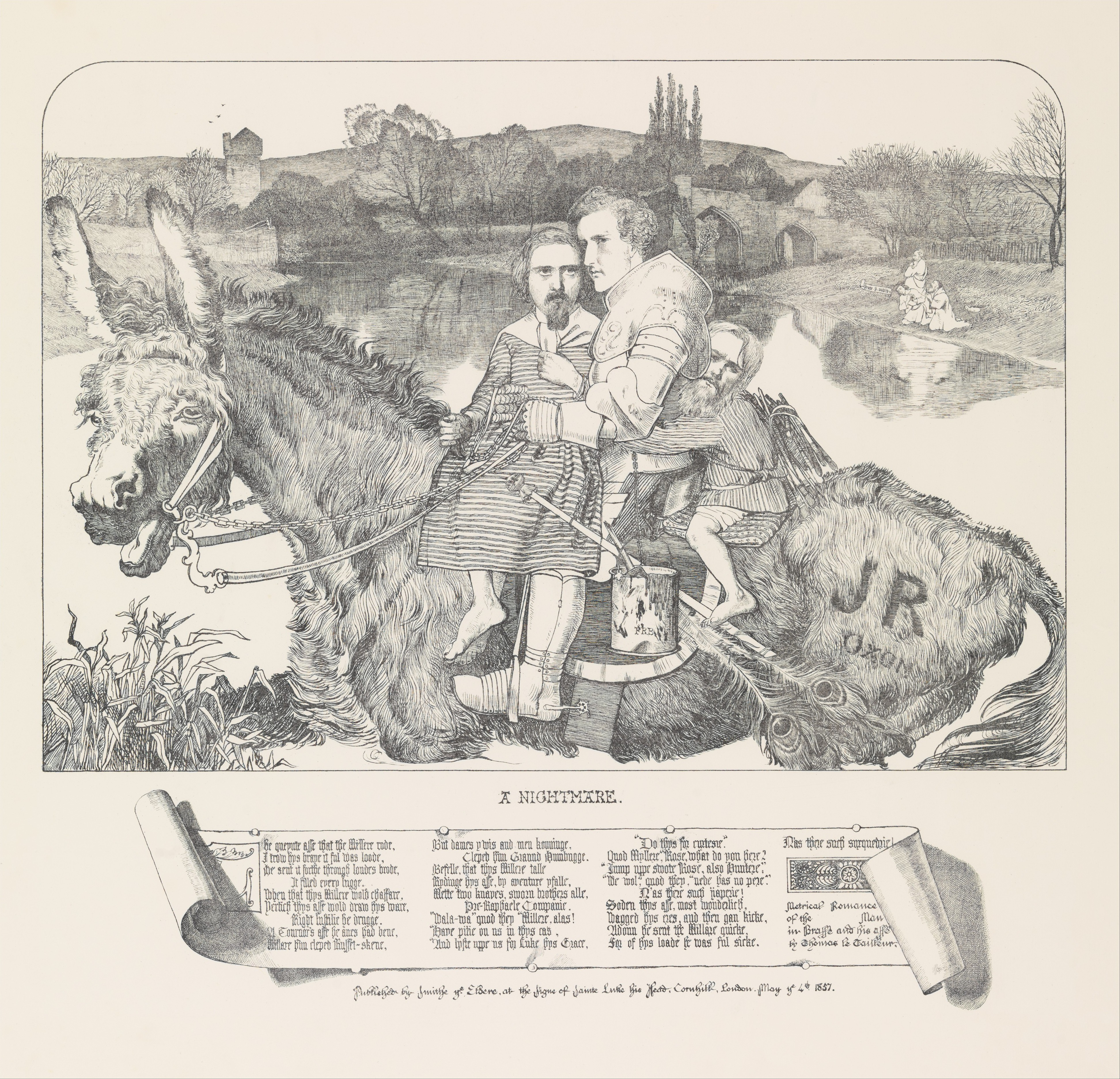 Print; Prints